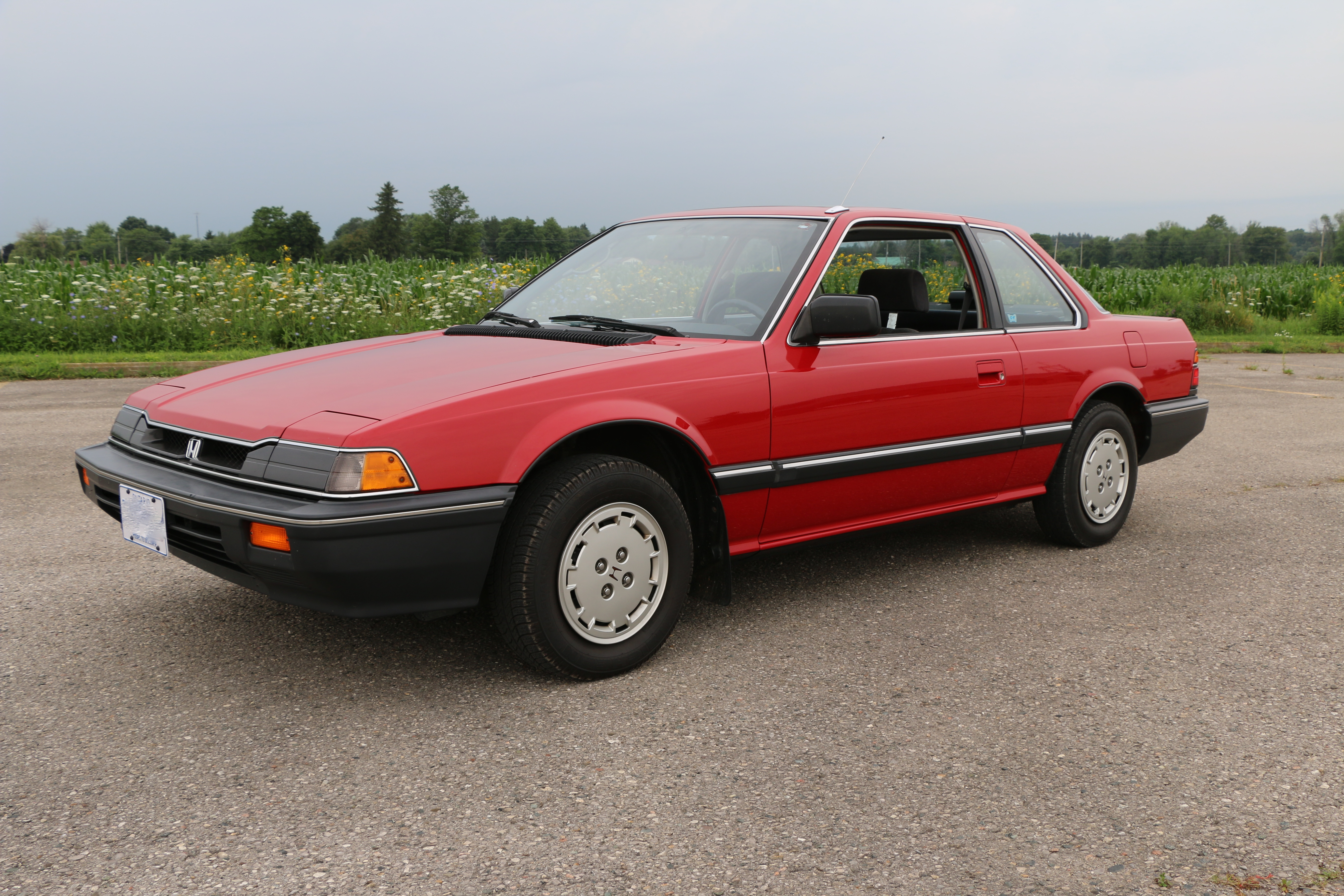 Second generation Honda Prelude. 1987, Base 1.8L DOHC, 5 Speed Manual. August 2014. 114,000 km. Canadian Car never winter driven.